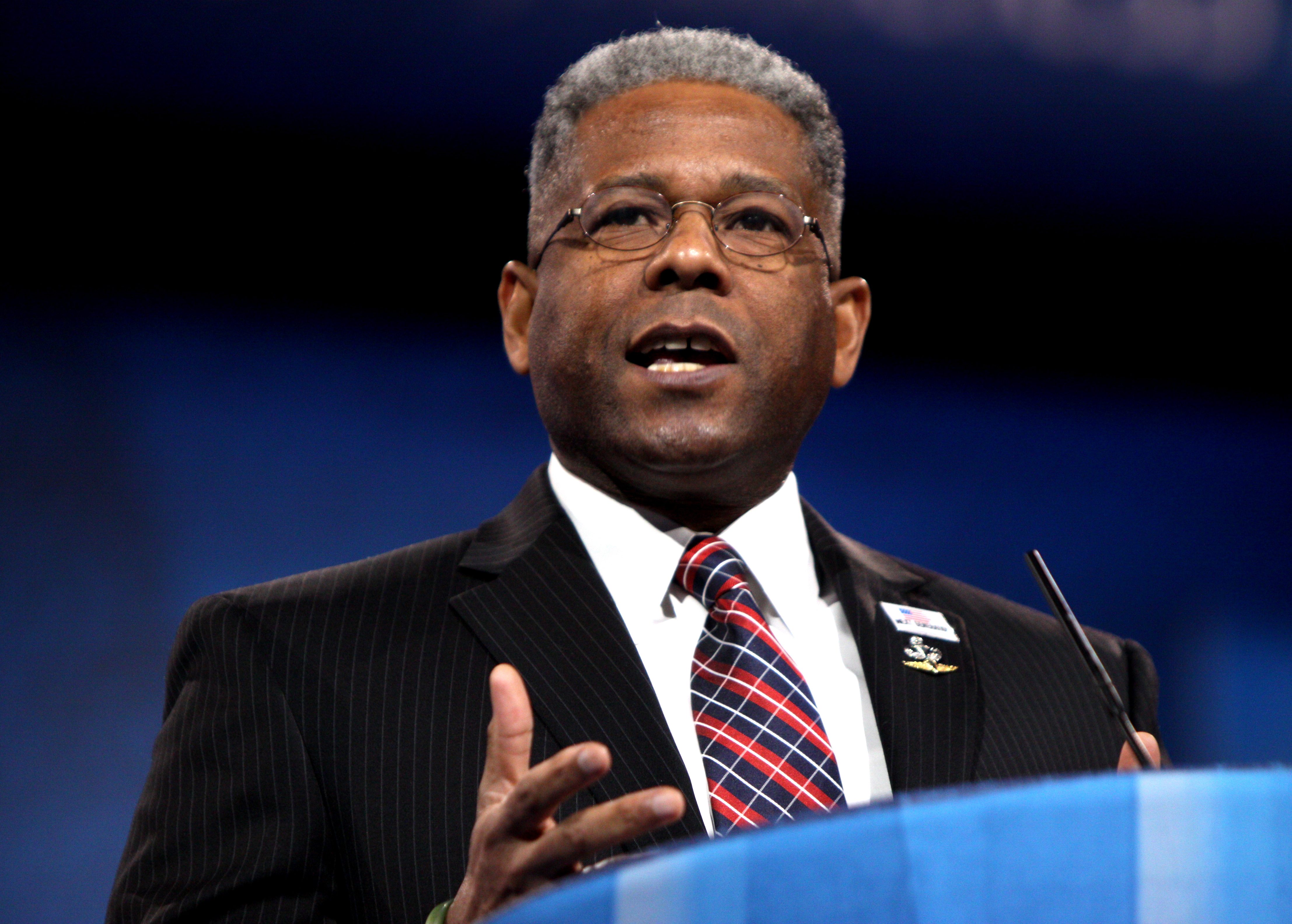 Allen West speaking at the 2013 CPAC in Washington, D.C.